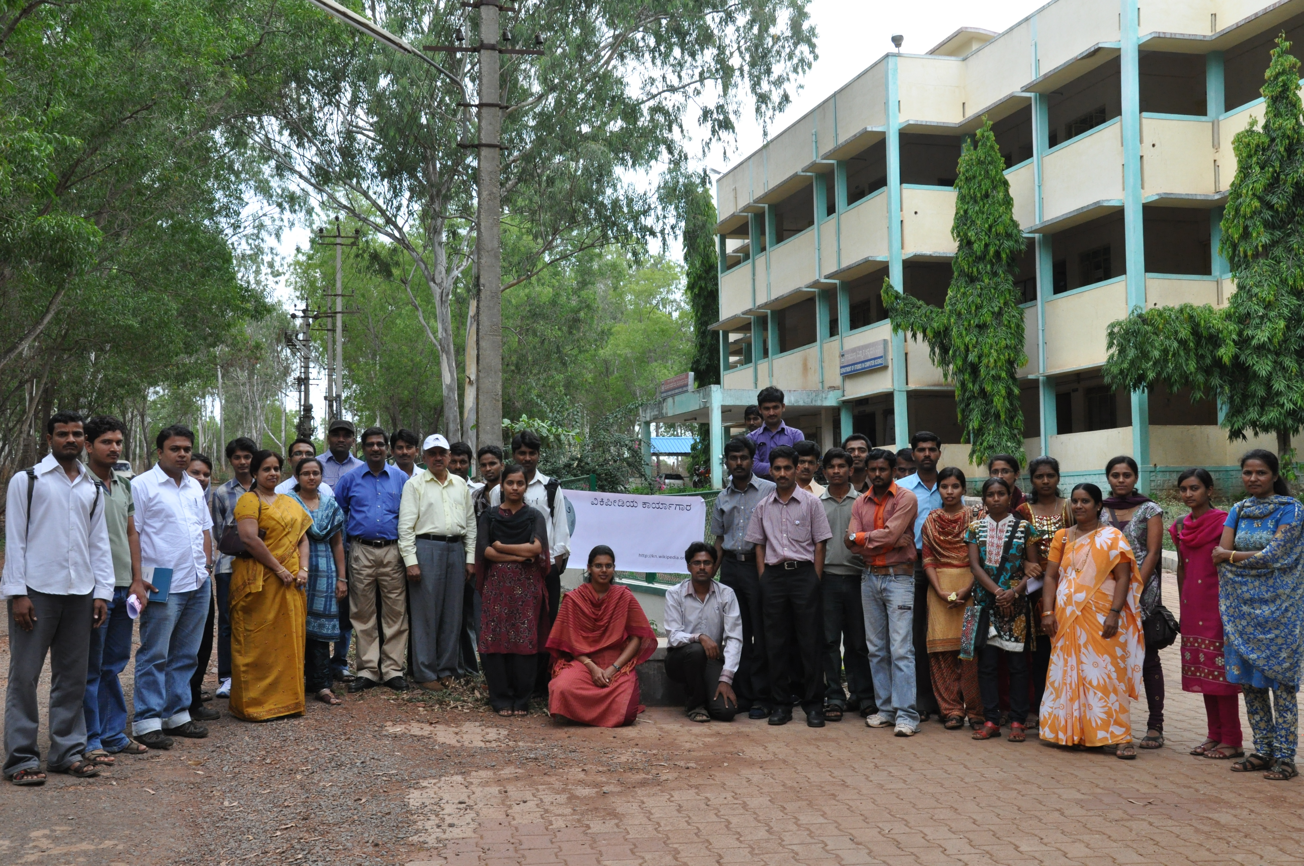 Kannada Wikipedia Workshop in Karnataka University, Dharwad